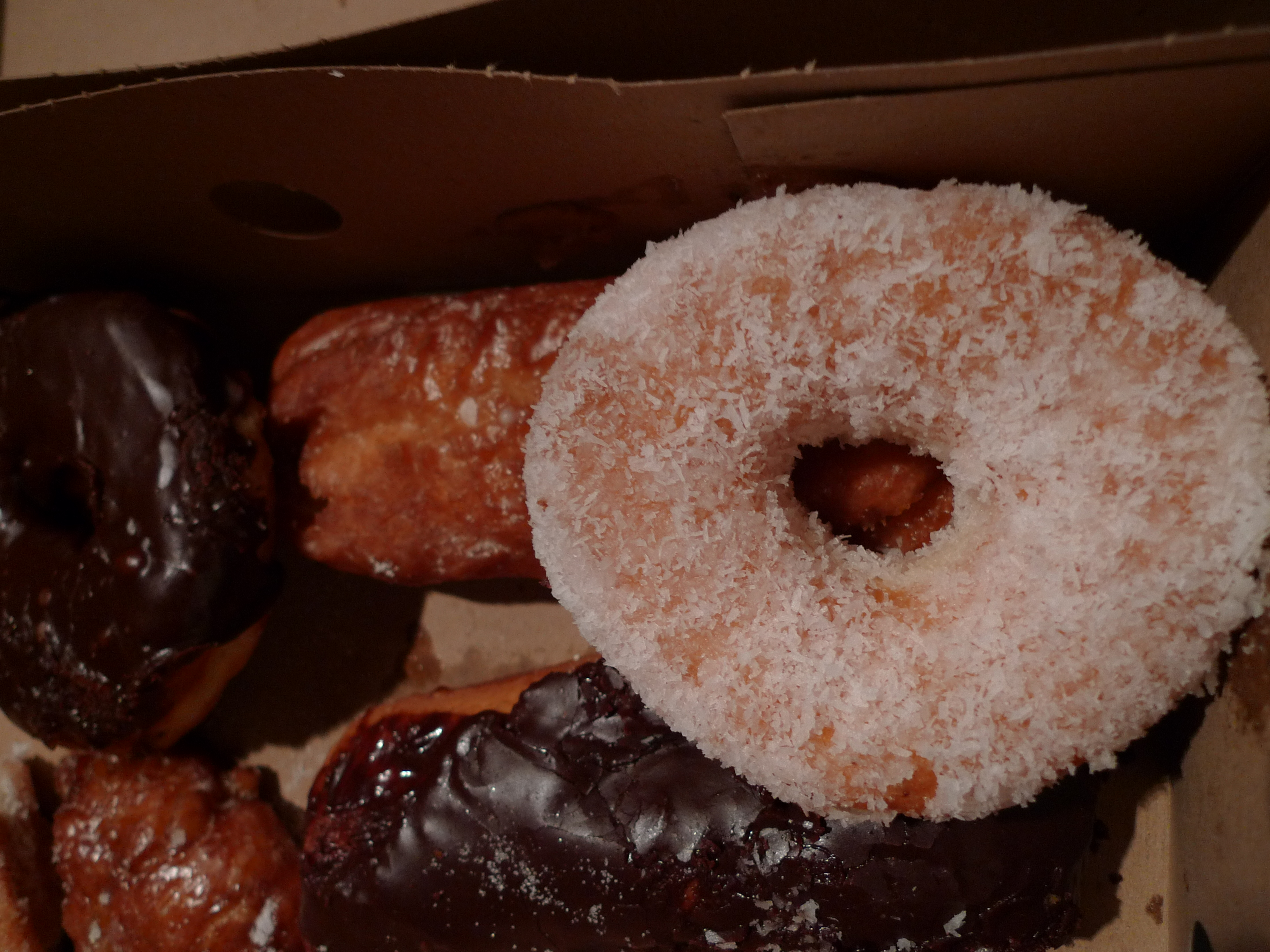 Doughnut covered with coconut flakes